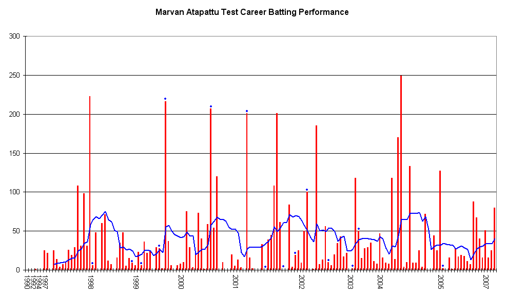 This graph details the Test Match performance of Marvan Atapattu. It was created by Raven4x4x. The red bars indicate the player's test match innings, while the blue line shows the average of the ten most recent innings at that point. Note that this average cannot be calculated for the first nine innings. The blue dots indicate innings in which Atapattu finished not-out. The information in this chart is current as of 21 November 2007. This graph was generated with Microsoft Excel 2002, using data from Cricinfo and .au.